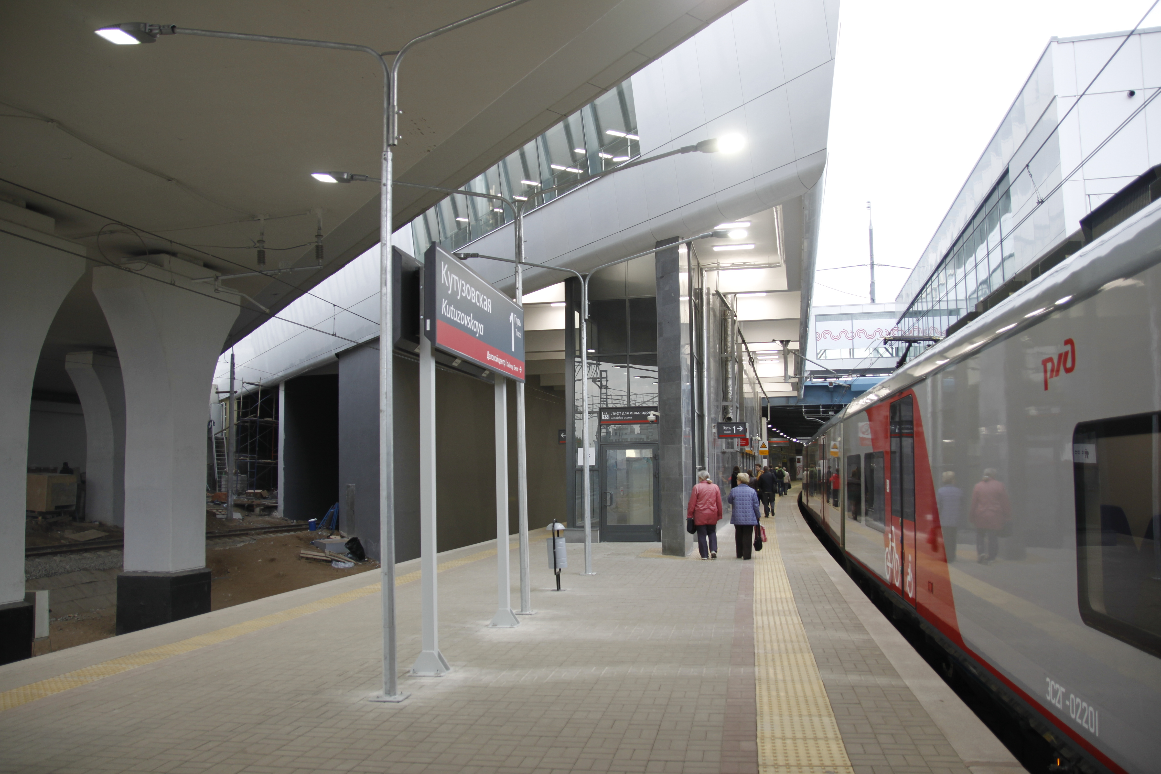 Kutuzovskaya MCC station platform